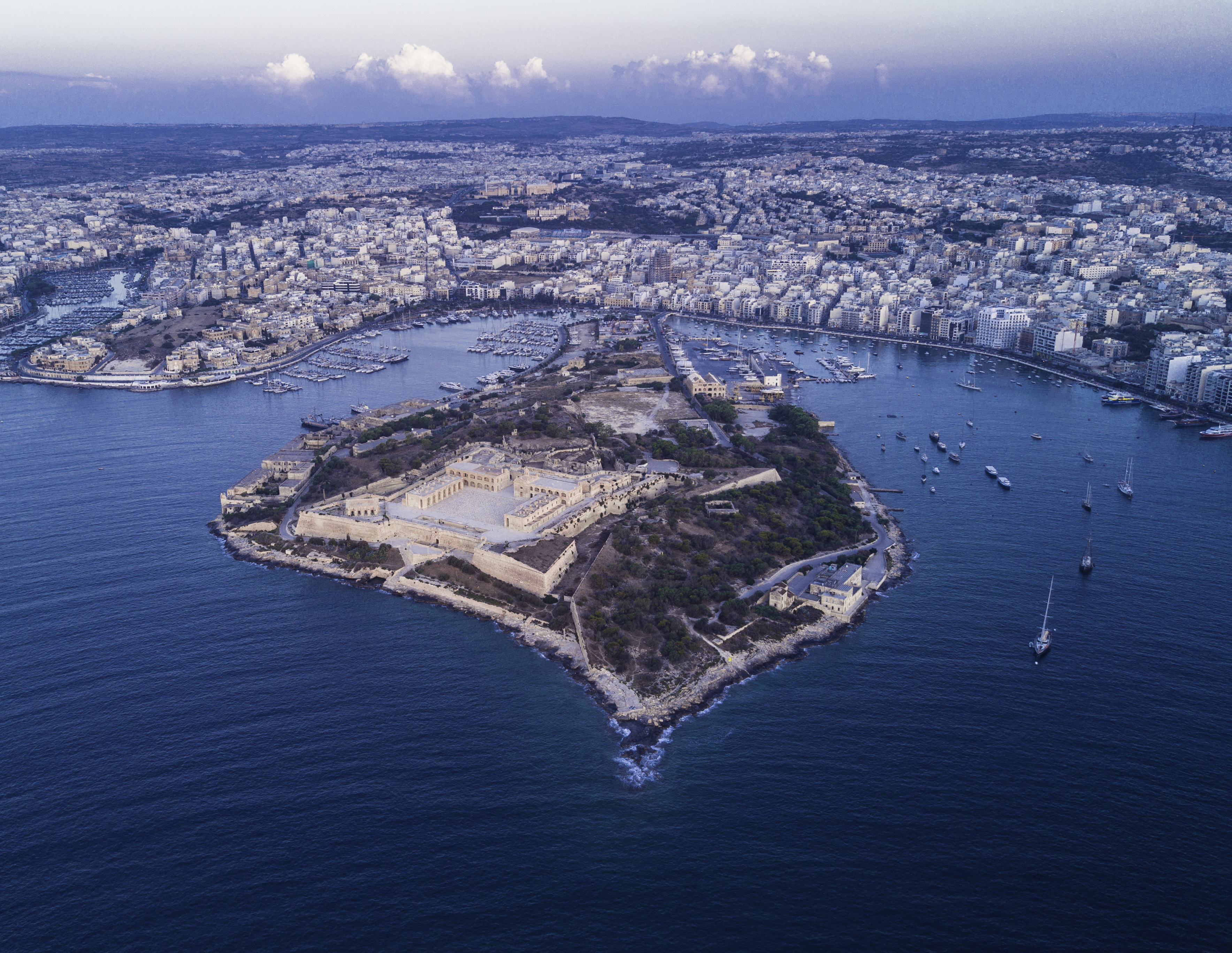 Aerial view of Manoel Island This media is about Maltese cultural property with inventory number 01315.